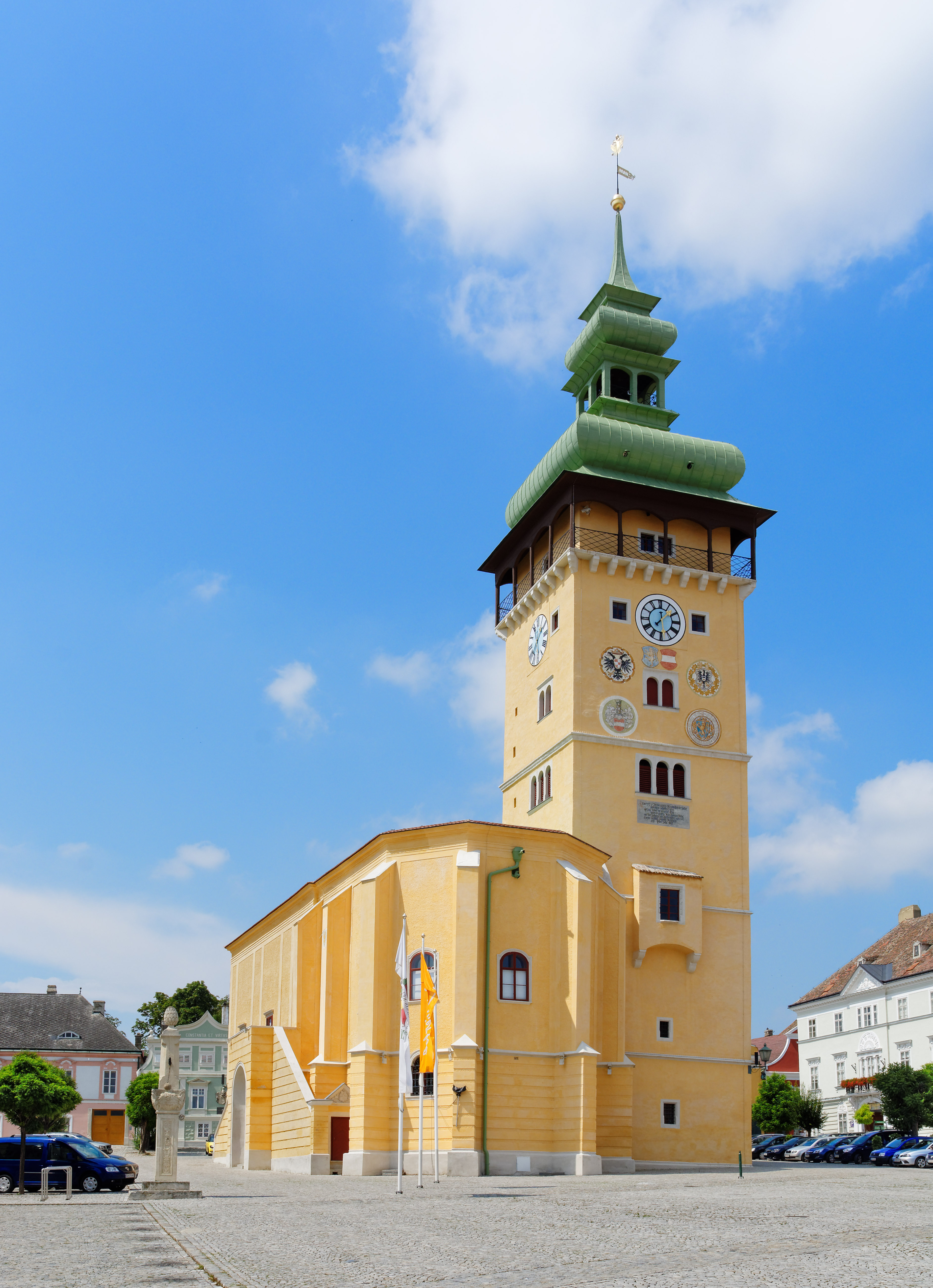 Former town hall in Retz, Lower Austria, Austria